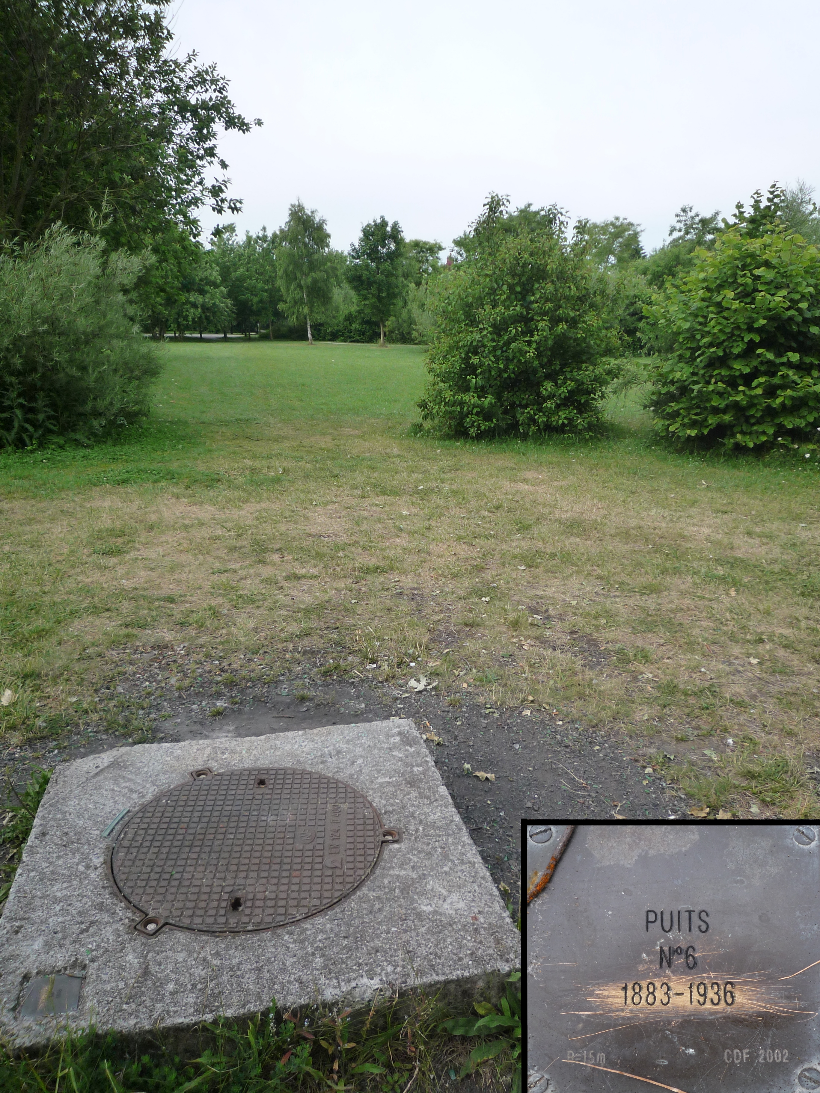 Pit number 6 of the Compagnie des mines de l'Escarpelle at Leforest, Pas-de-Calais, France.